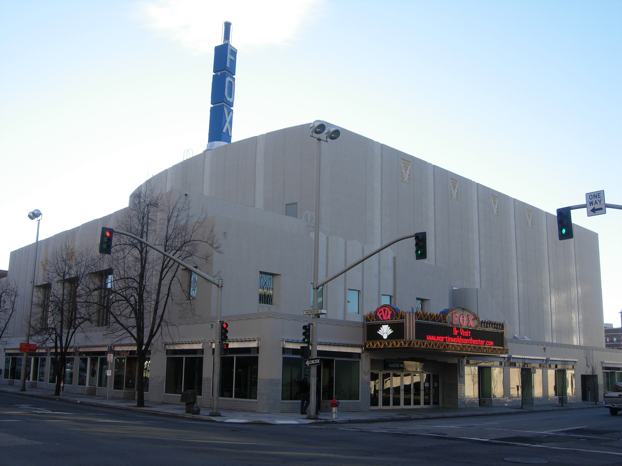 The Fox Theater in Spokane, Washington